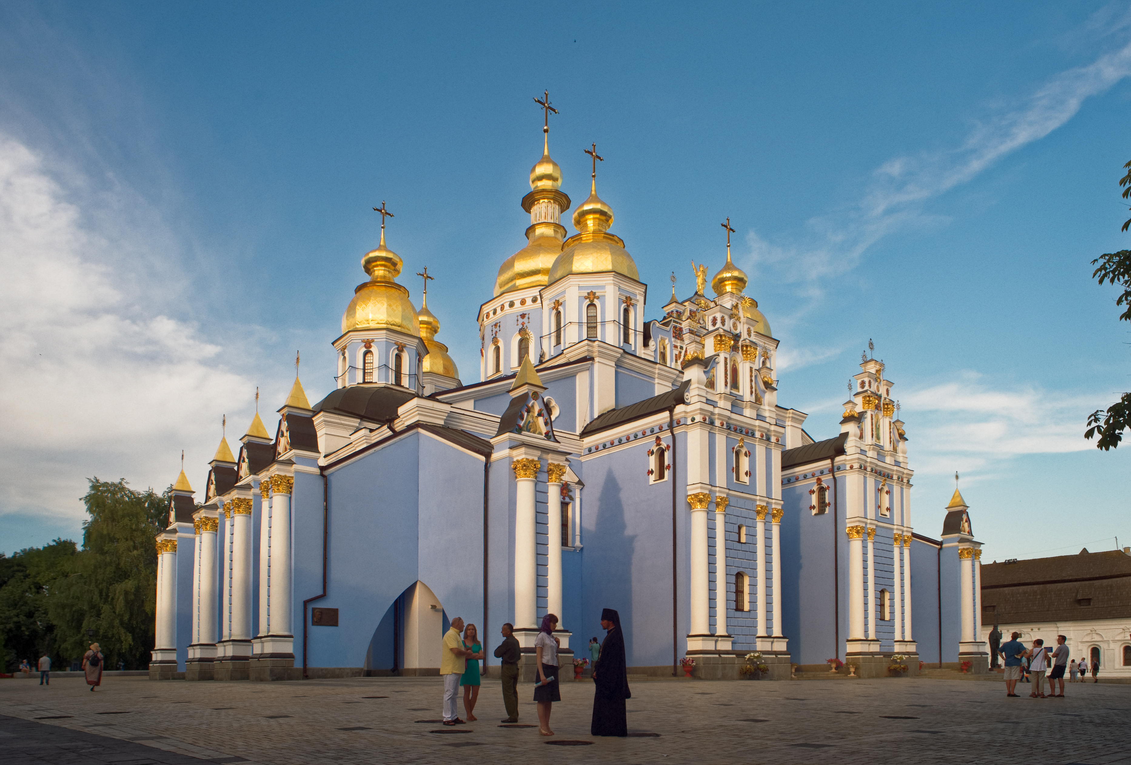 St. Michael's Golden-Domed Monastery, Kiev, Ukraine